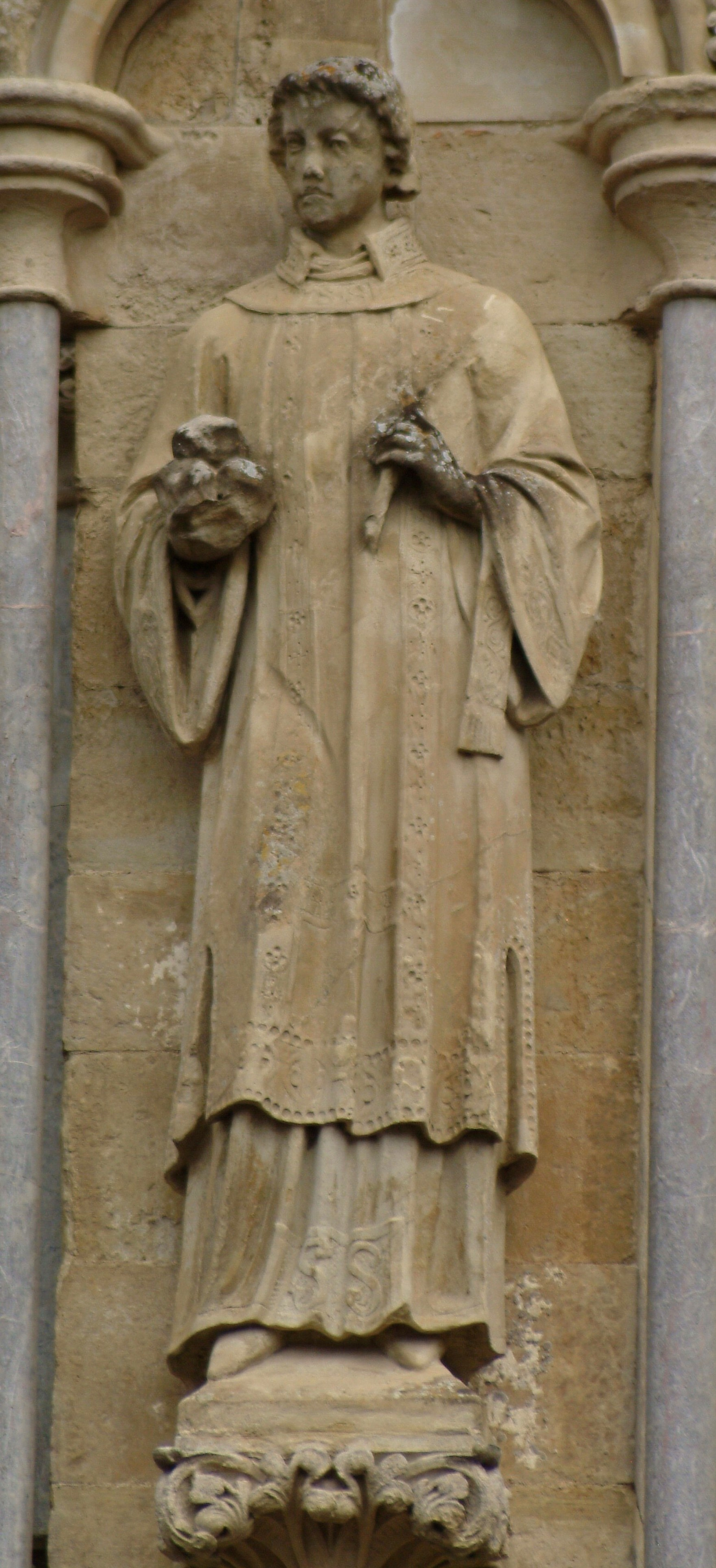 Statue of St Stephen on the West Front of Salisbury Cathedral, UK